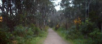 Track at Puckeys Estate